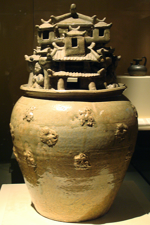 Celadon Soul Vase. Exhibition "Treasures of China", Canadian Museum of Civilization, 2007. Western Jin Dynasty (A.D. 265 - 326) Excavated at Shaoxing, Zhejiang Province Vessels like this were believed to be "residences for the souls of the dead"; the elaborate sculptures on the top show daily life at the time, depicting buildings, watchtowers, pillars, corridors, rooms, people, and flying birds.